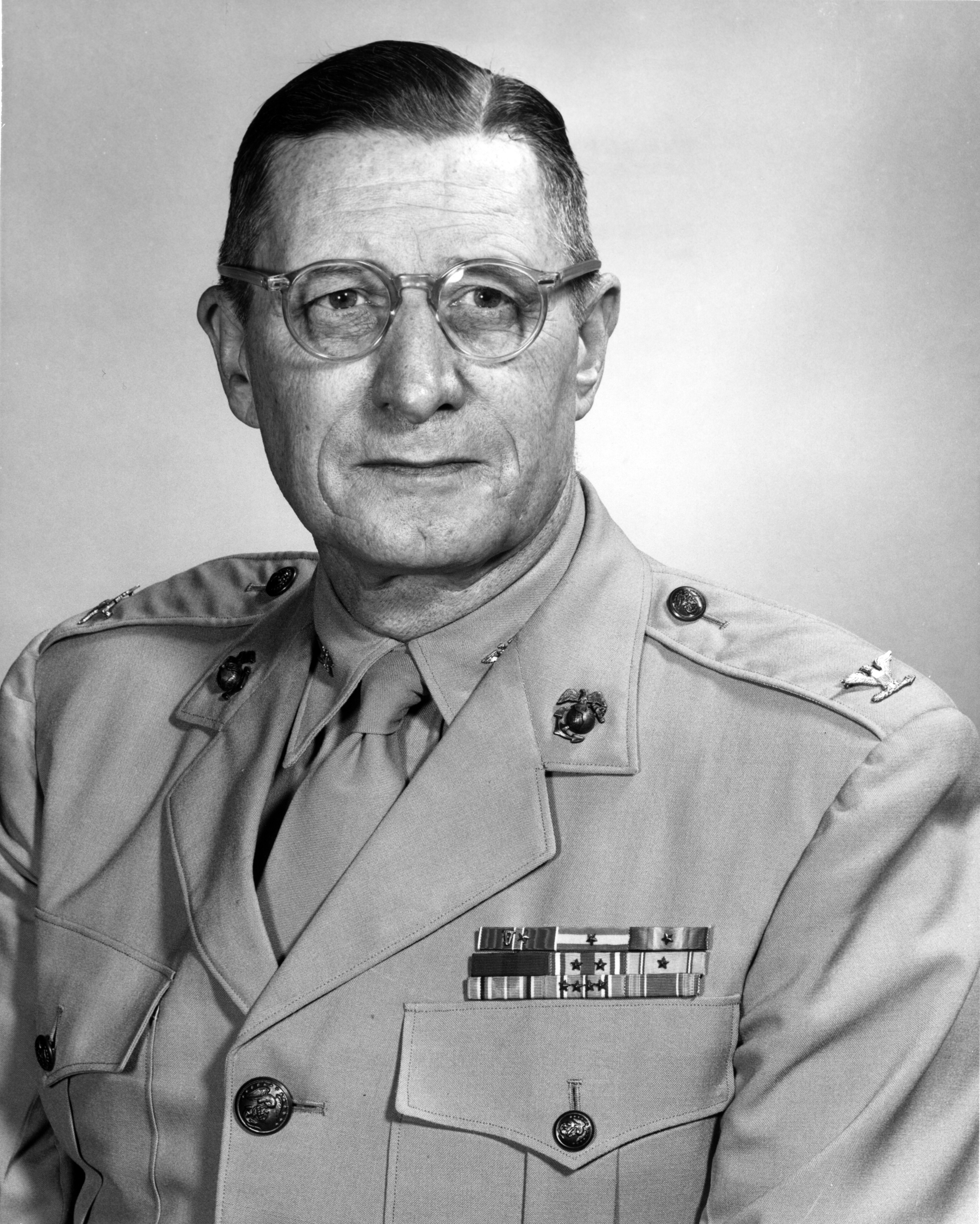 James Joseph Keating (April 20, 1895 - December 18, 1978) was a United States Marine Corps officer with the rank of Brigadier General, who is most noted as Commanding Officer of the 3rd Battalion, 11th Marines during the Battle of Guadalcanal and later as Officer in Charge of the Intelligence Section, Headquarters Marine Corps.